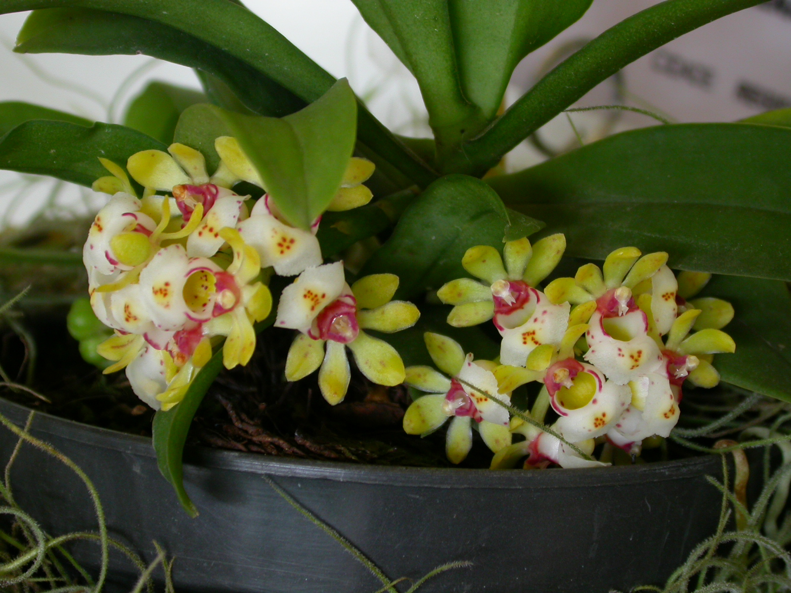 Gastrochilus somae